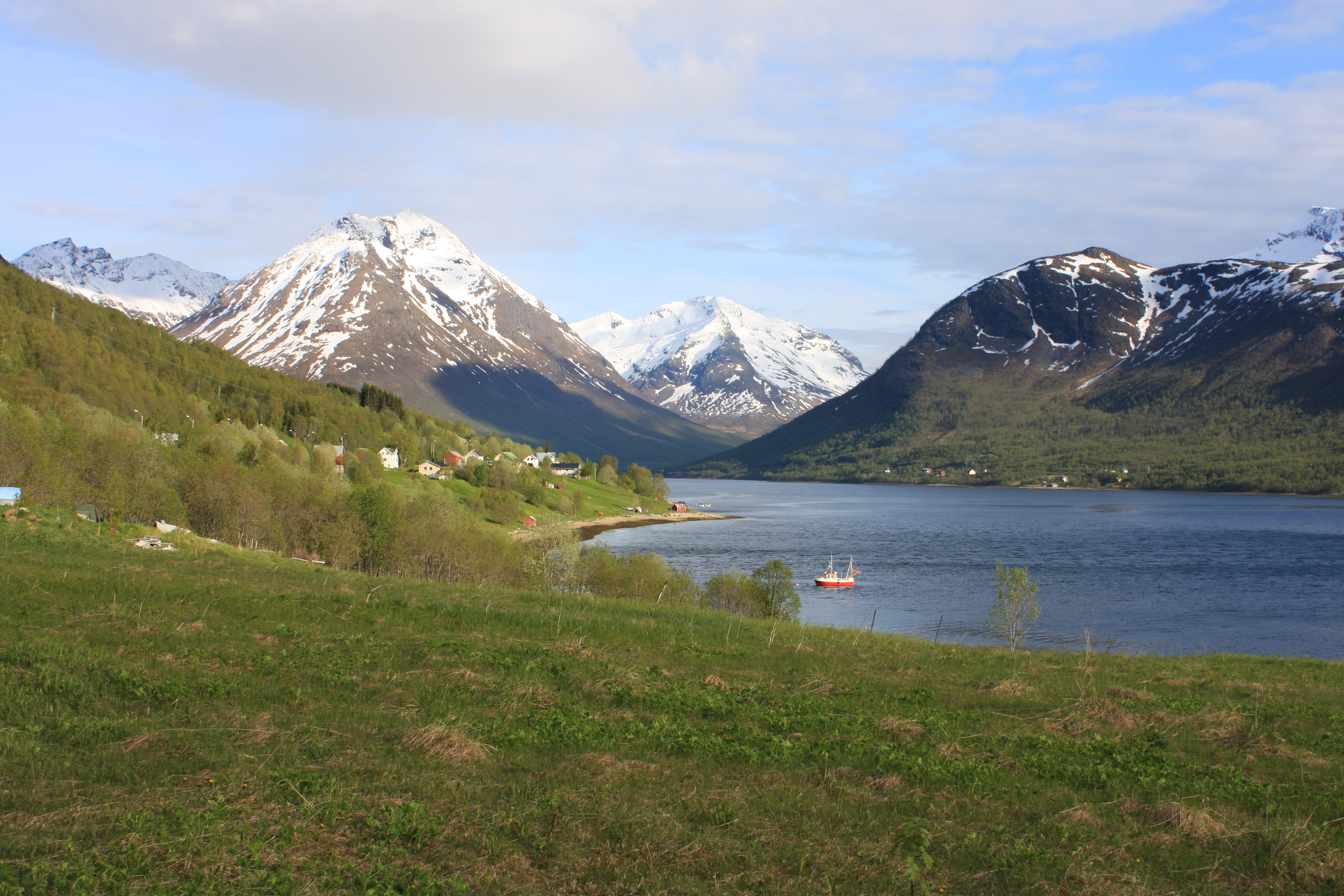 The picture is taken towards Sørbotn from Fagernes in Ramfjorden outside of Tromsø, Norway.